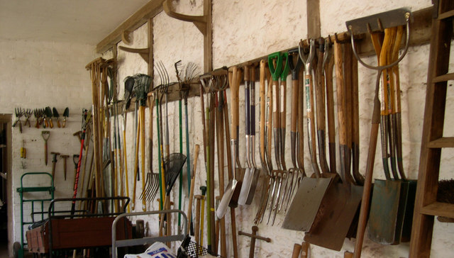 Tools in the potting shed